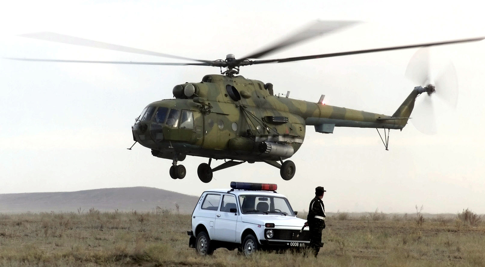 Kazakhstan officials fly into the drop zone area, in a MIL Mi-8 "Hip C" helicopter, during an international mass jump into Kazakhstan. Paratroopers from Kazakhstan, the United States and Turkey are descending into Kazakhstan to prepare for the the start of the Central Asian Peacekeeping Battalion (CENTRASBAT) 2000. The CENTRASBAT 2000 exercise is a multi-national, in the Spirit of Partnership for Peace, peacekeeping and humanitarian relief exercise sponsored by United States Central Command (US CENTCOM) and hosted by the former Soviet Republic Kazakhstan in Central Asia, 11-20 September 2000. Exercise participants include approximately 300 U. S. troops including personnel from US CENTCOM, from the US Army's 82nd Airborne Division, Fort Bragg, North Carolina, and 5th Special Forces Group, Fort Campbell, Kentucky, and approximately 300 Kazakhstan soldiers. Other participating nations include: Uzbekistan, Kyrgystan, United Kingdom, Turkey, Russia, Georgia, Azerbaijan and Mongolia. The objectives of CENTRASBAT 2000 are to strengthen military to military relationships and regional security, and to increase interoperability between NATO and partner nations. CENTRASBAT originated in 1996, and was established to form a joint battalion of soldiers from the former Soviet Republics of Kazakhstan, Kyrgystan and Uzbekistan to serve as a key component in developing a regional security and cooperation structure. CENTRASBAT 2000 will test US and Central Asian unit's combat readiness and ability to conduct peacekeeping and humanitarian operations, as well as develop and build cooperative relationships between the respective states and assist in laying the foundation for future peacekeeping and humanitarian operations, 10 September 2000.